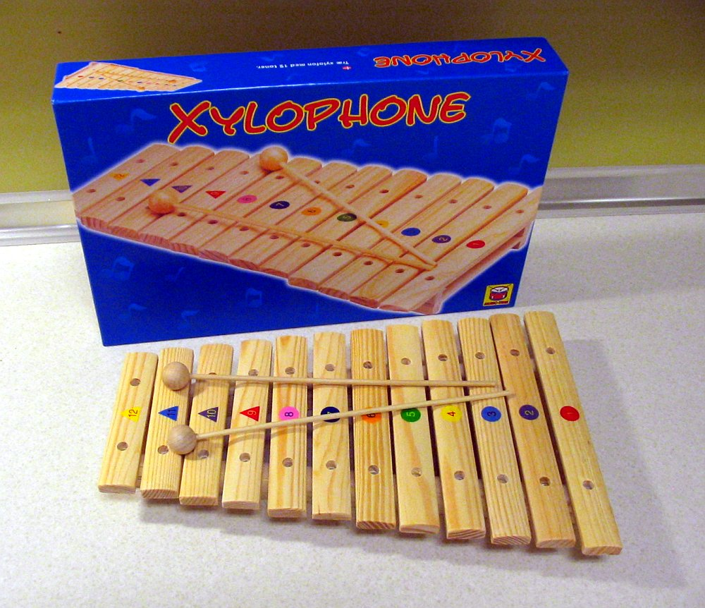 Xylophone